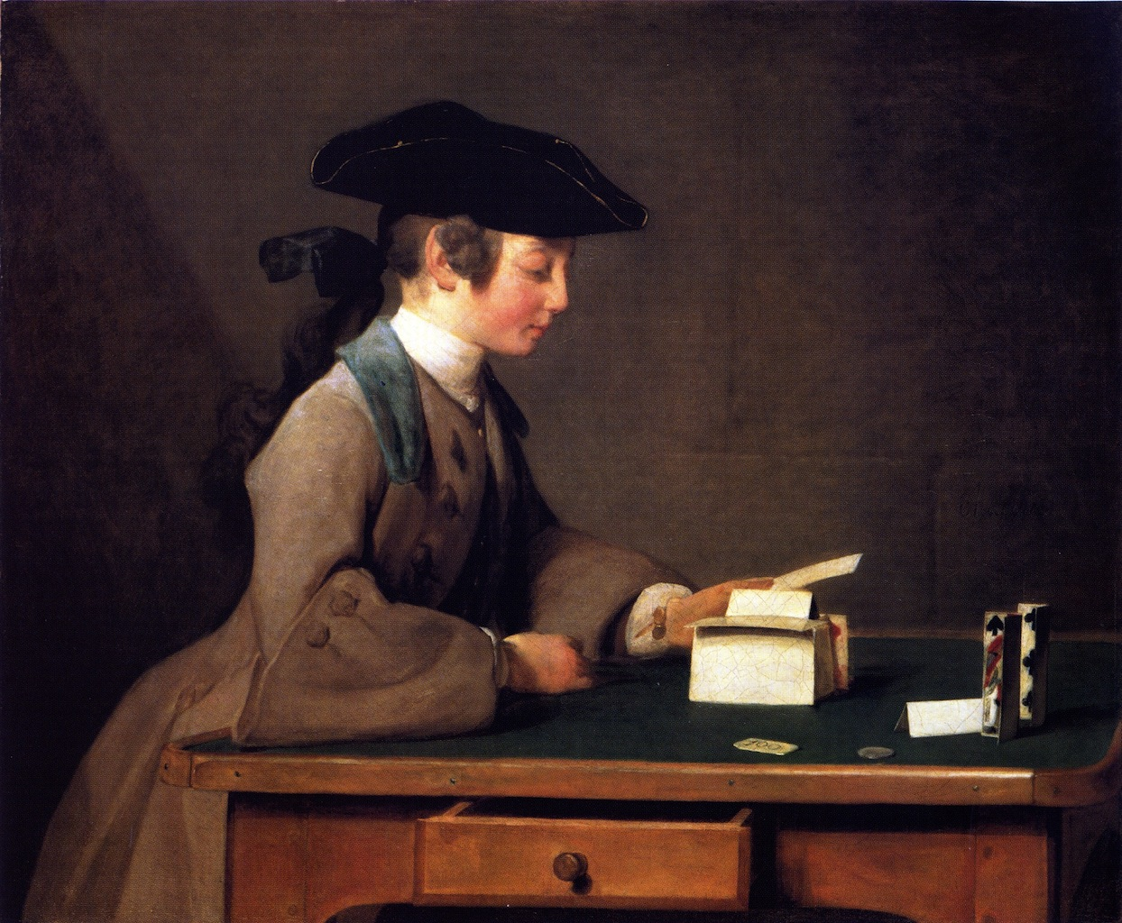 public domain